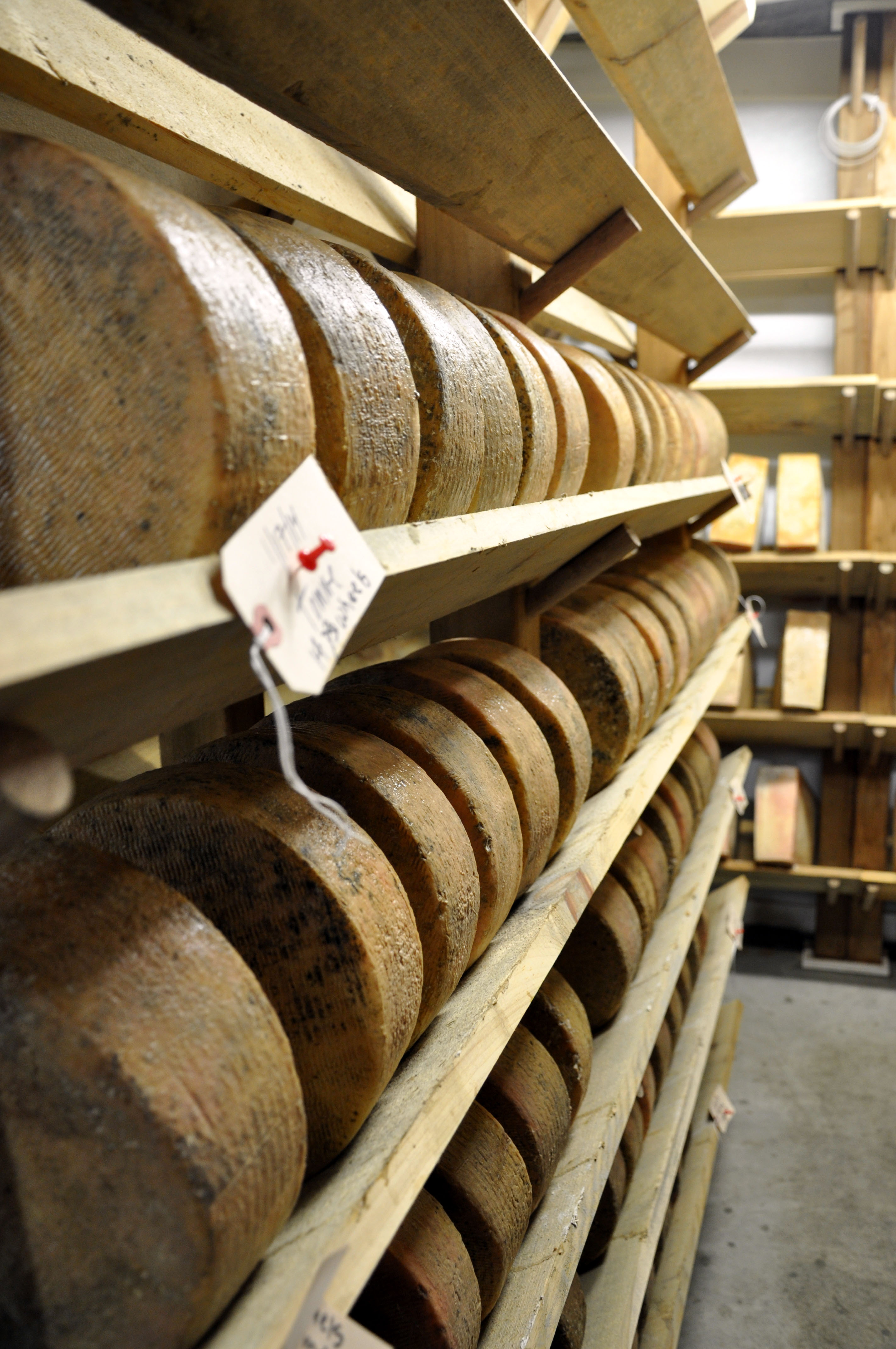 This is the cheese aging cave of the Chaseholm Farm Creamery, located in Pine Plains, NY.